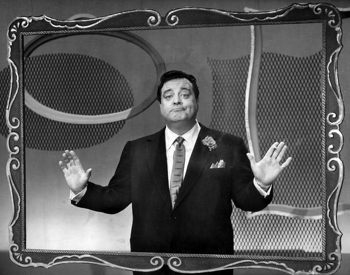 Promotional photo of Jackie Gleason for his short-lived television game show, You're in the Picture.